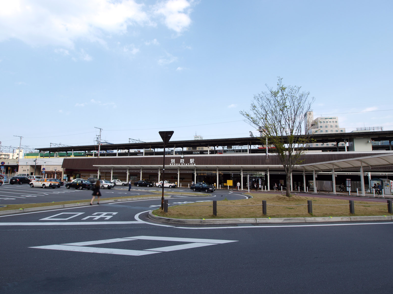 Beppu Station Yamate Exit, Beppu City, Oita Prefecture